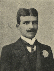 Republican member of the Portuguese 1911 Constituent Assembly.